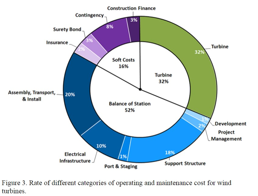 Percentages of total costs for turbine installations.